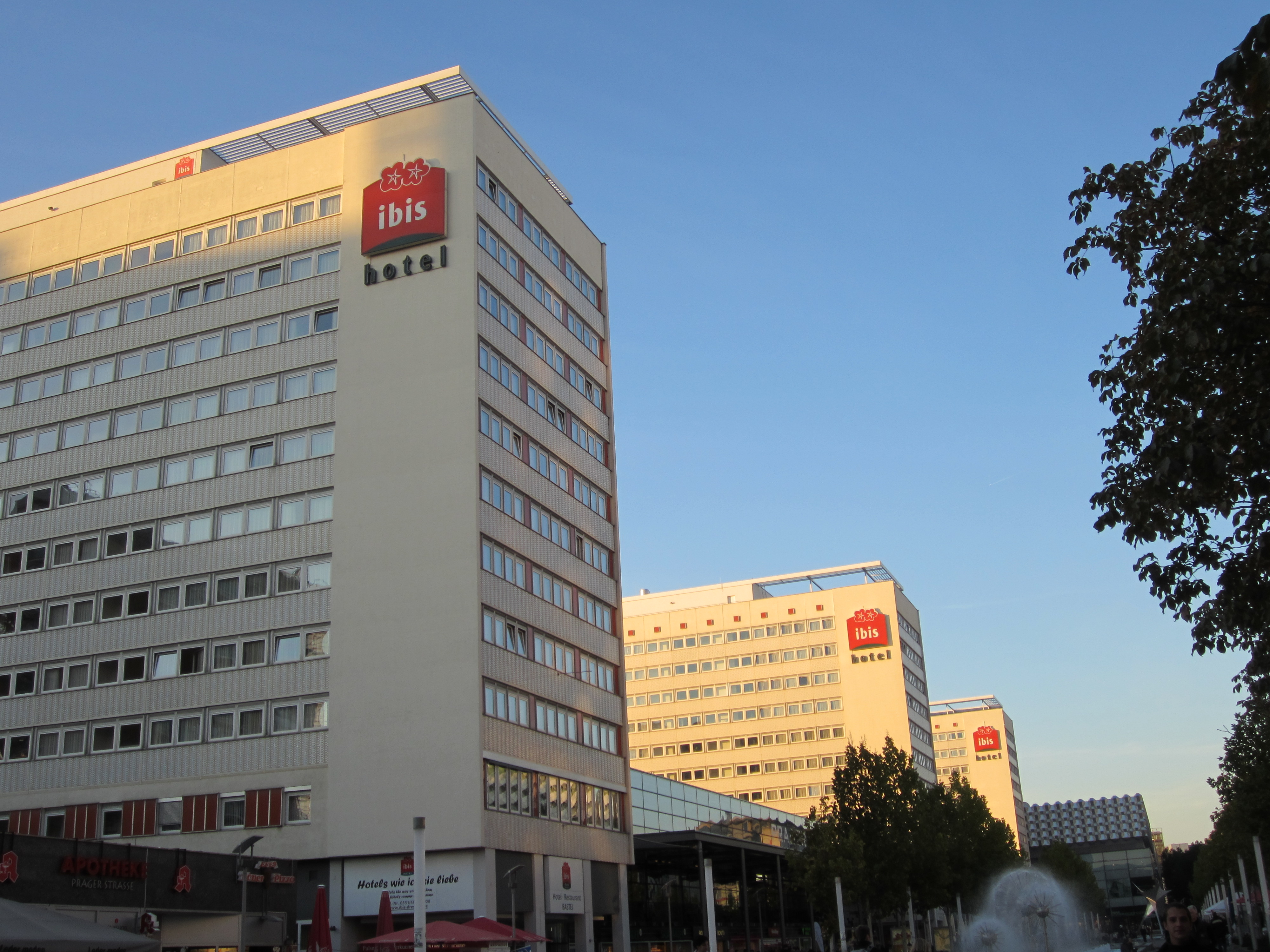 The three Ibis hotels in Dresden